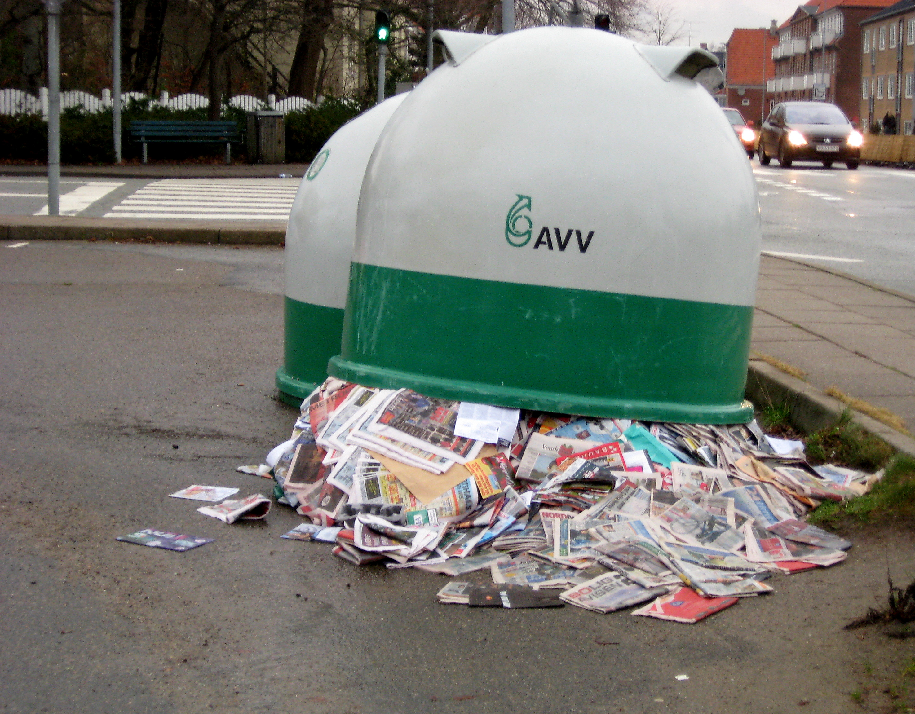 Paper salvage container